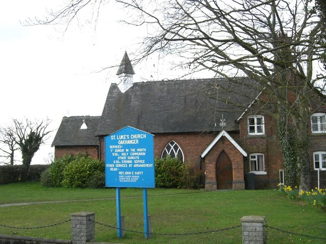 St Luke's mission church, Oakhanger, Cheshire, seen from the southeast. Built as the village school, with schoolteacher's house attached.